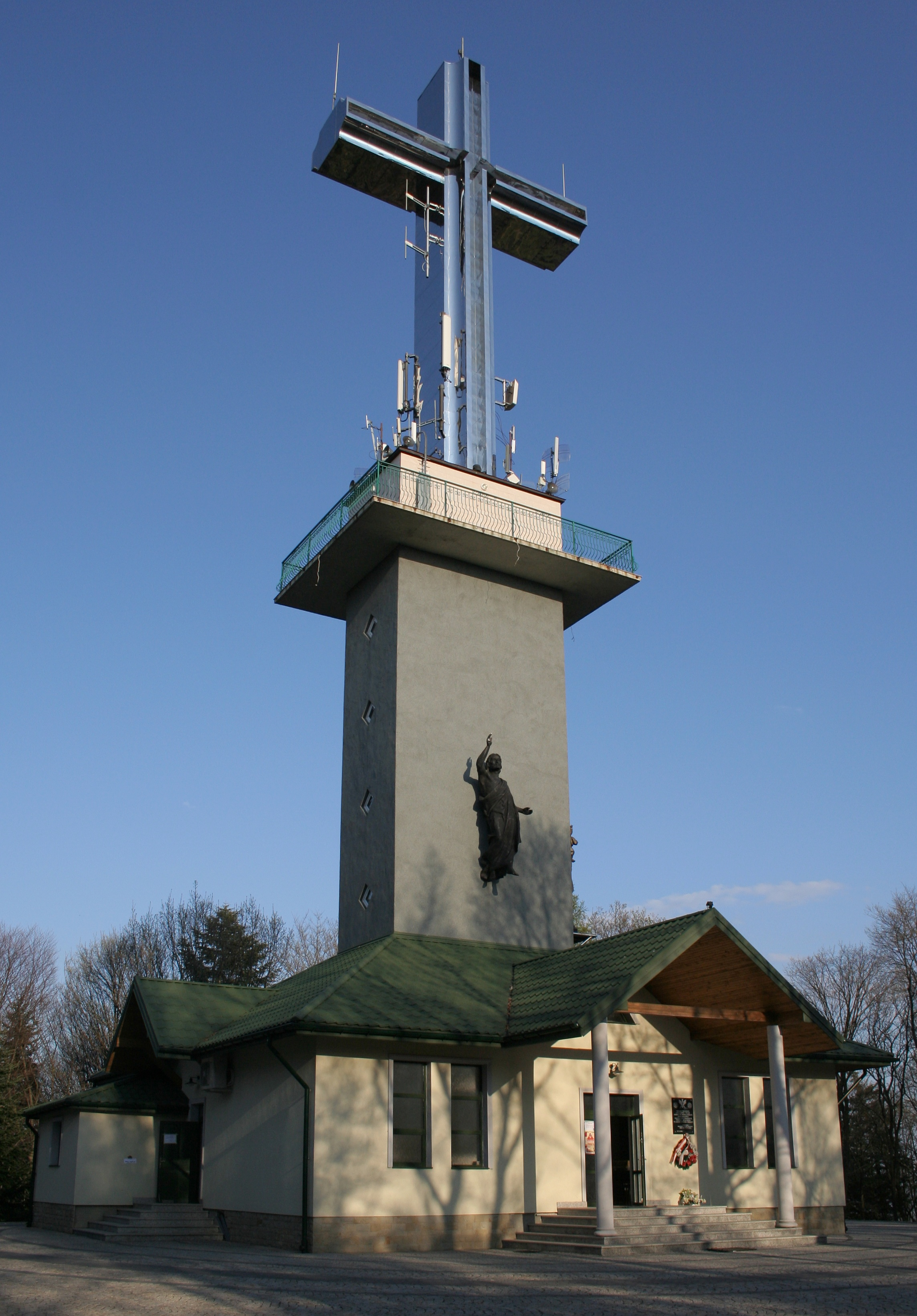 The sanctuary in Liwocz, Poland.